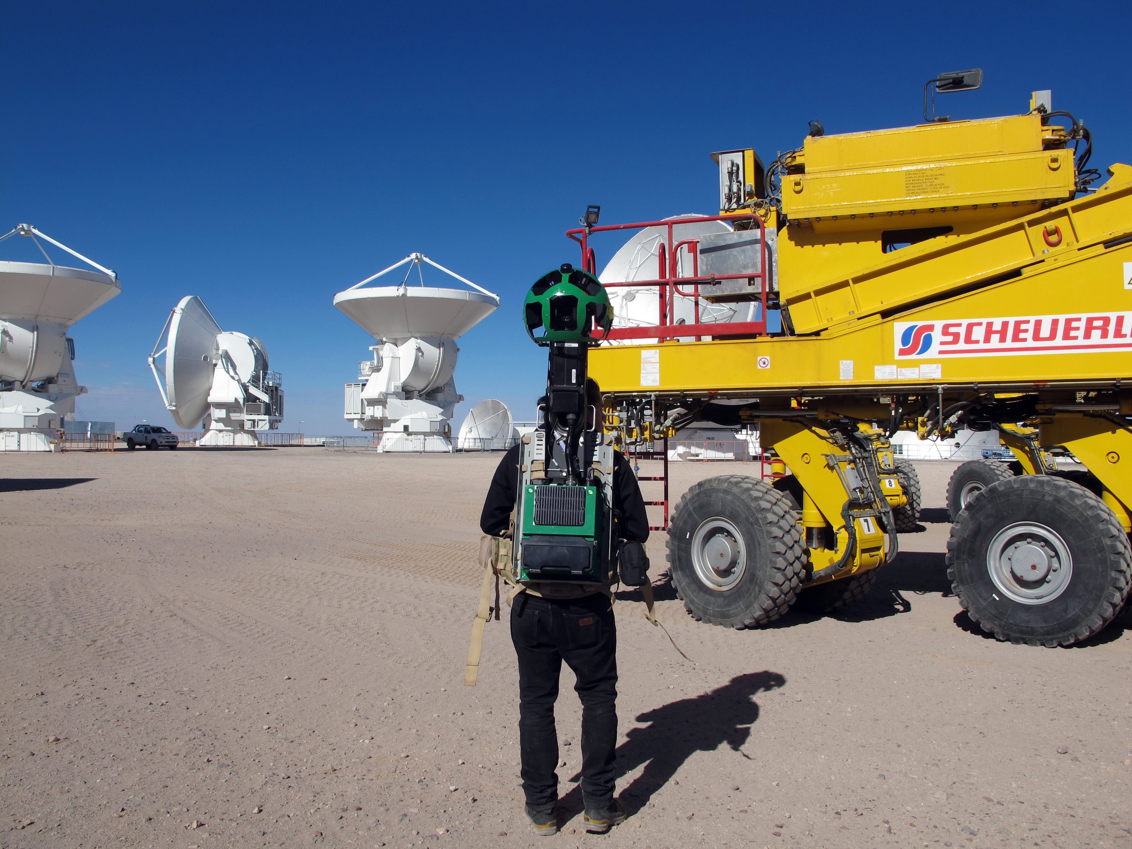 A Google Trekker for Google Street View, 5000 metres above sea level on the Chajnantor Plateau in northern Chile, at the Atacama Large Millimeter Array (ALMA), Array Operations Site (AOS), alongside one of the ALMA transporters.